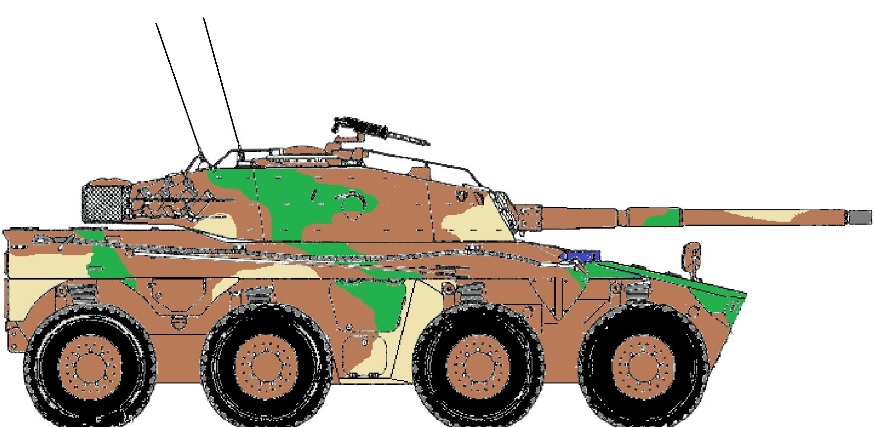 Rooikat 105